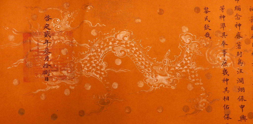 Vietnamese dragon on Emperor Khải Định's scroll in the British Library collection.